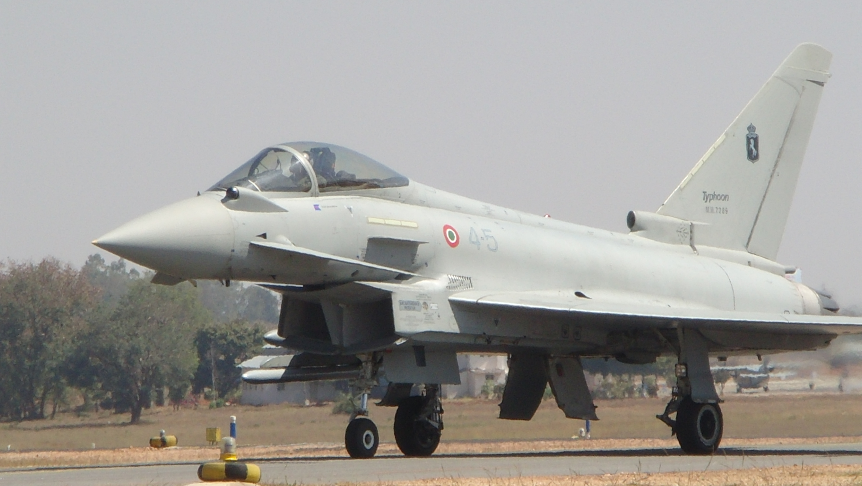 Eurofighter Typhoon of the Italian Air Force, Taxies to the runway, for take off at Yelahanka air force base Bangalore.